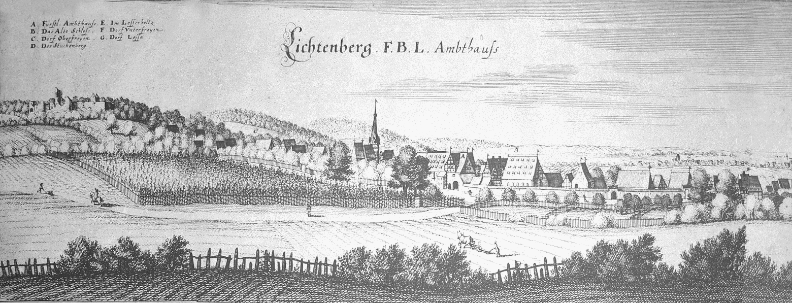 Part of Engraving by Matthäus Merian shows Lichtenberg, Lower Saxony